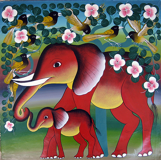 TT4796 by Abdallah - Tingatinga art (76x76cm), Oil on canvas